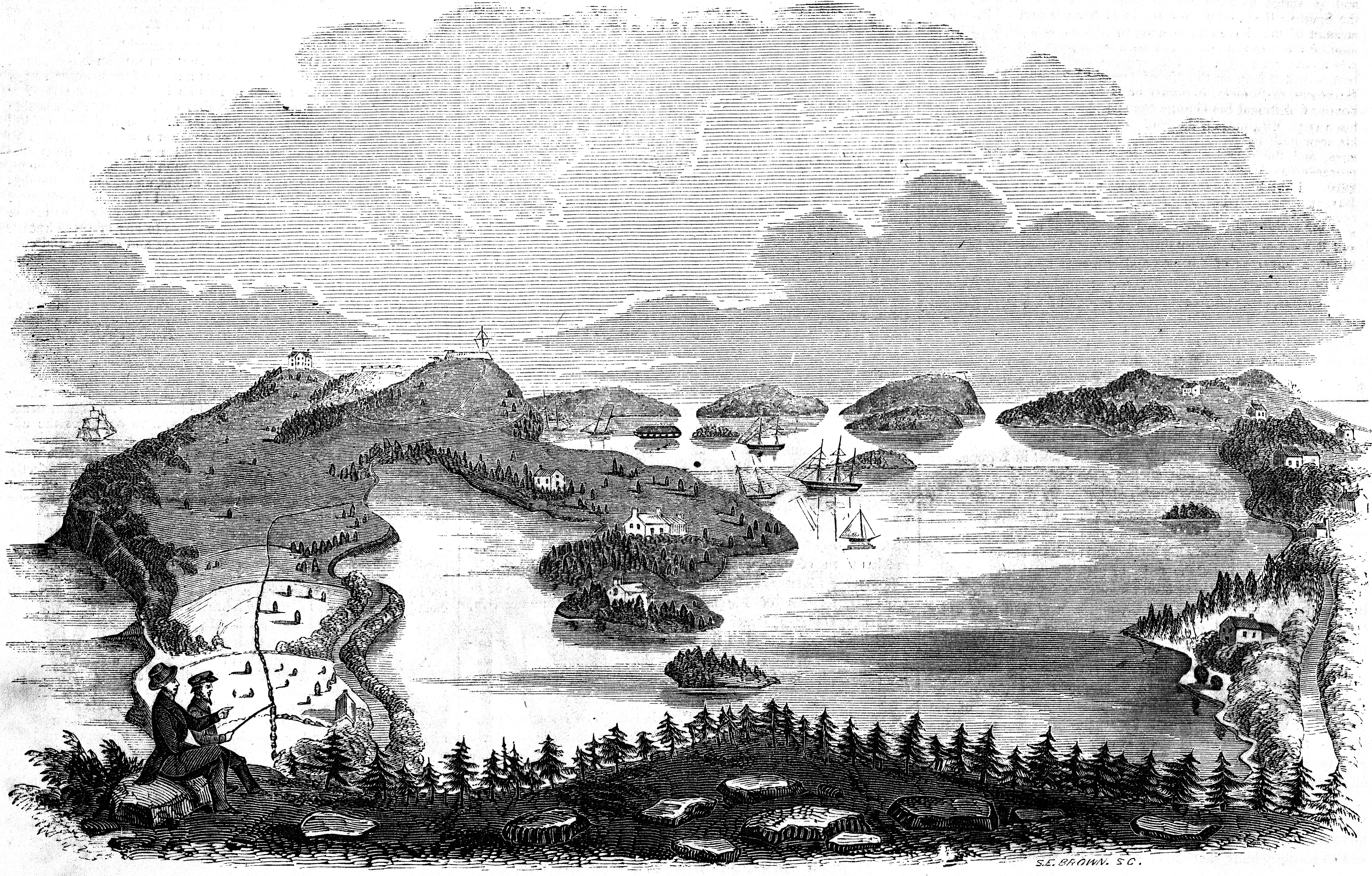 "Harbor of St. George, Bermuda from Sugar-Loaf Hill" 1854 (wood engraving)